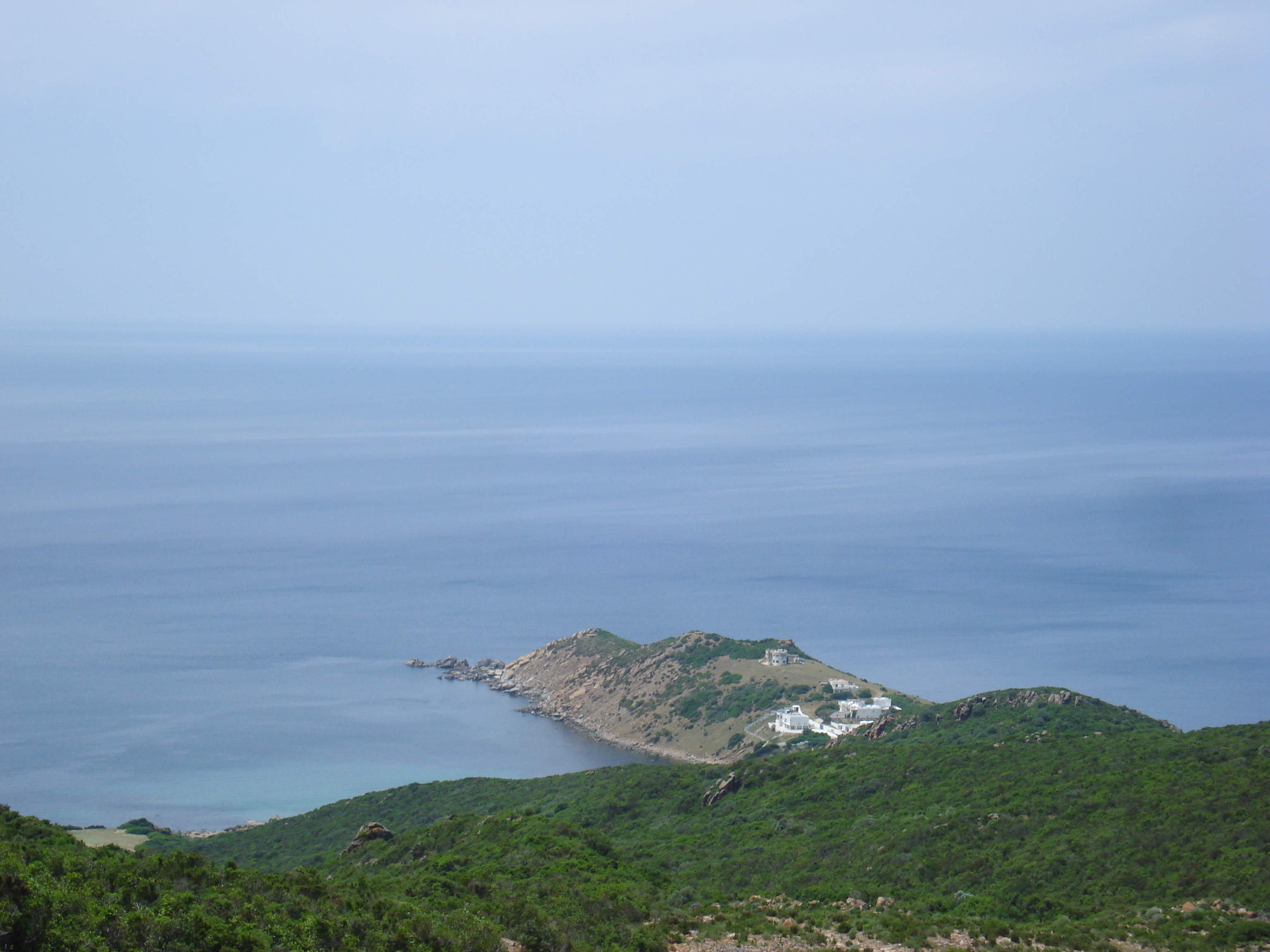 Cap Negro, North-West of Tunisia